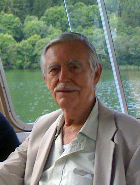 Halton Arp and his grandsons